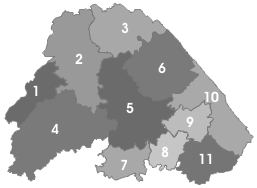 I created out of cartographic map